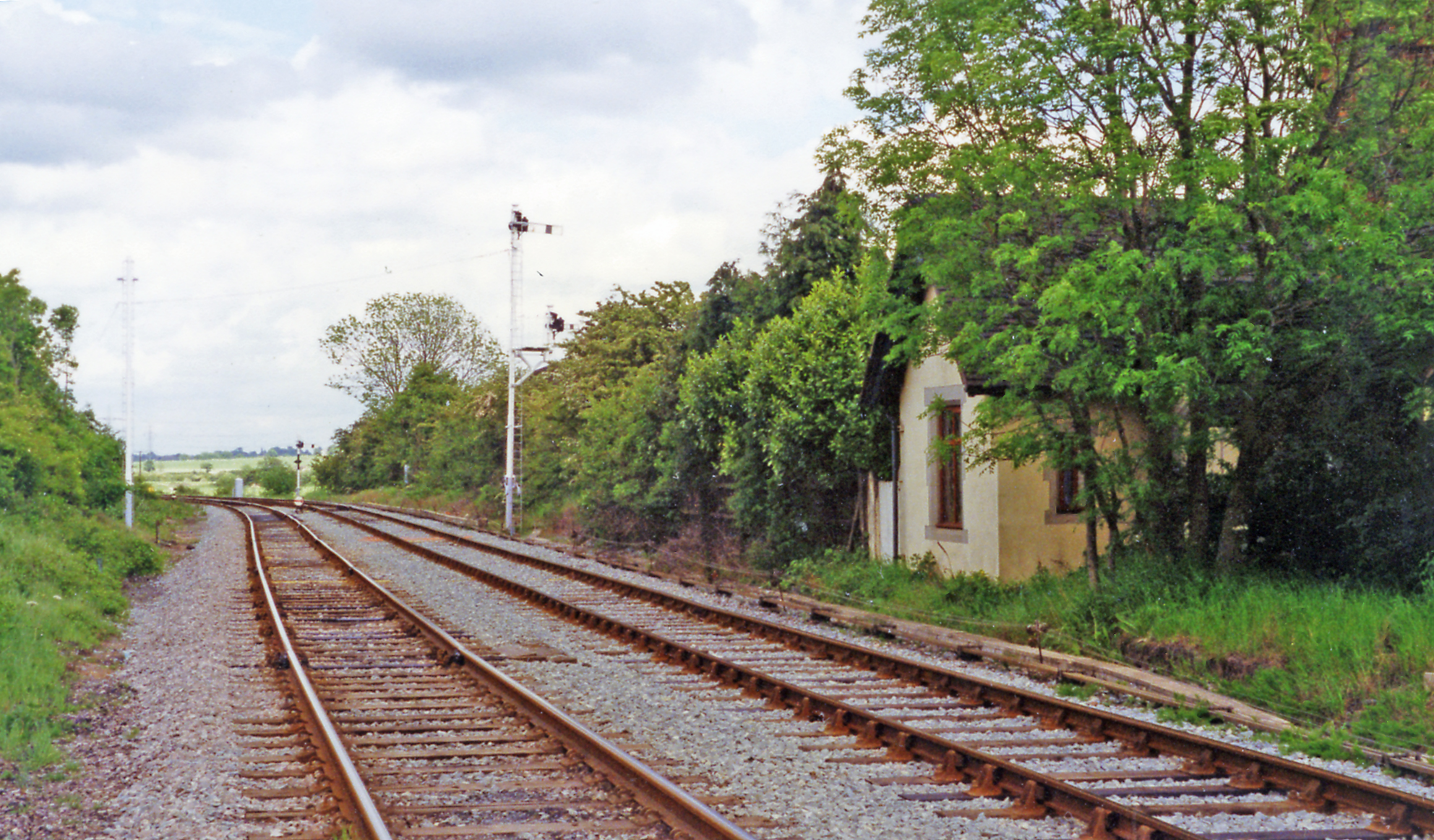 Site of Hawkesbury Lane station, 1995. View SW, towards Coventry: ex-LNWR Nuneaton - Coventry line. Although an important link between the London Euston - Birmingham main line through Coventry and the West Coast Main Line through Nuneaton, even this line was closed to passengers from 18/1/65 but was restored from 14/5/88 although not Hawkesbury Lane station itself